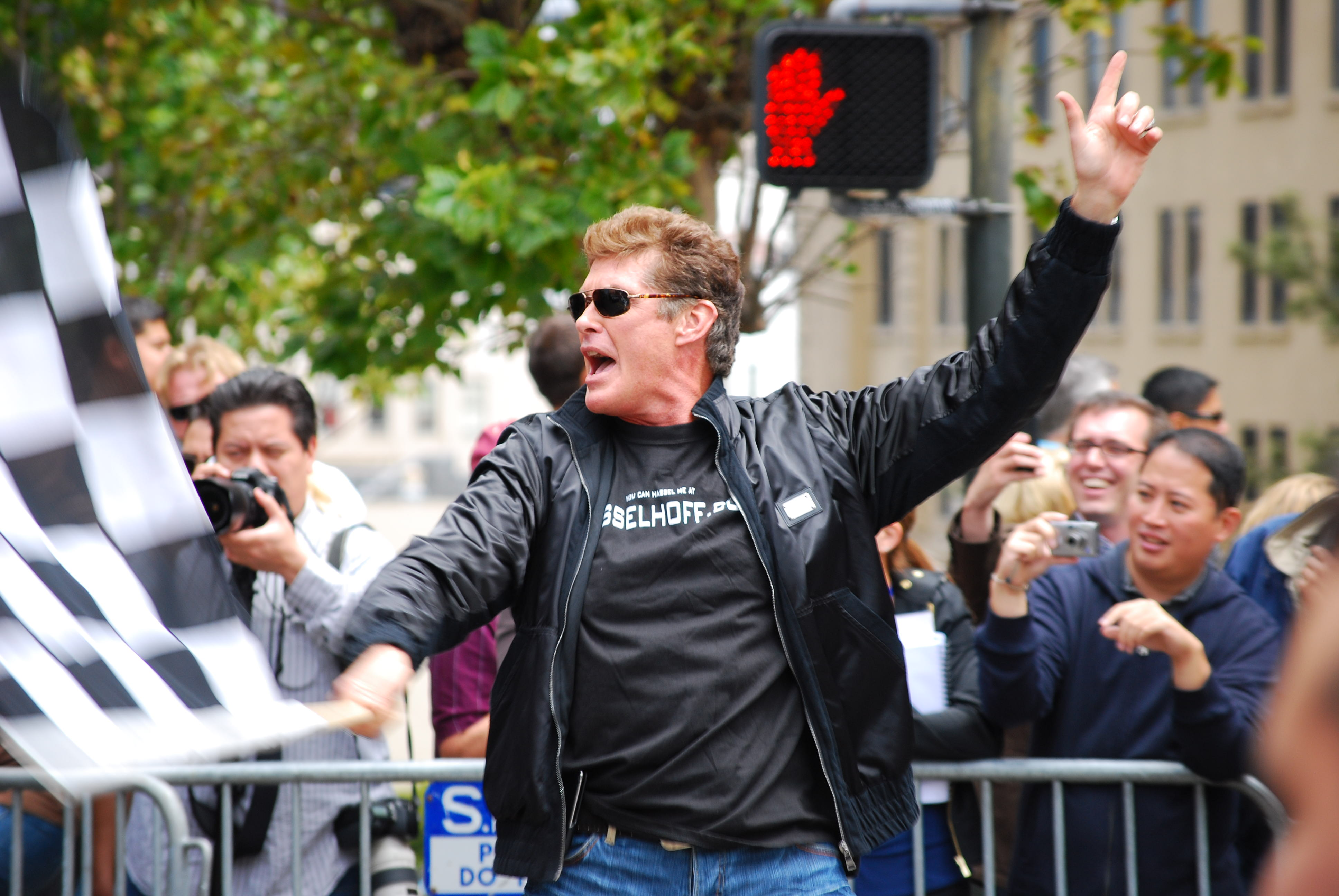 Hasselhoff starting the Gumball